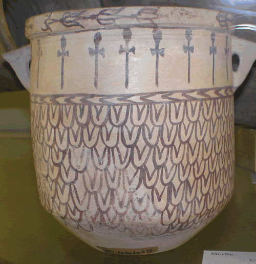 pottery vessel found in Meroe